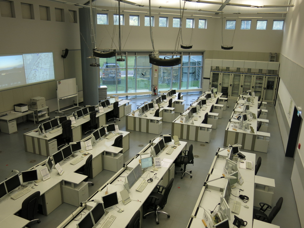 View of evaluation center from the visitors' gallery